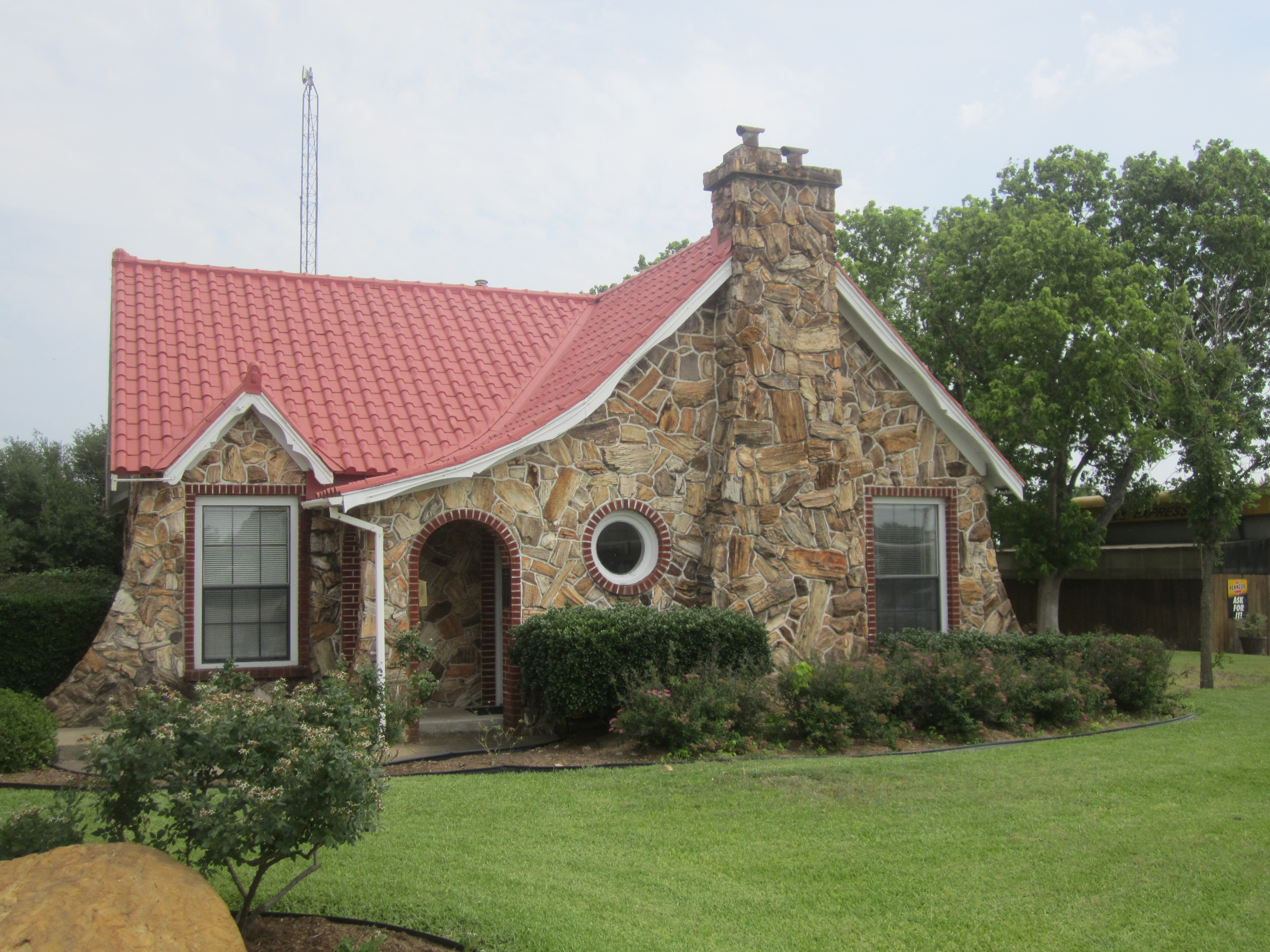 I took photo of Rockdale Chamber of Commerce office in Rockdale, TX, with Canon camera.